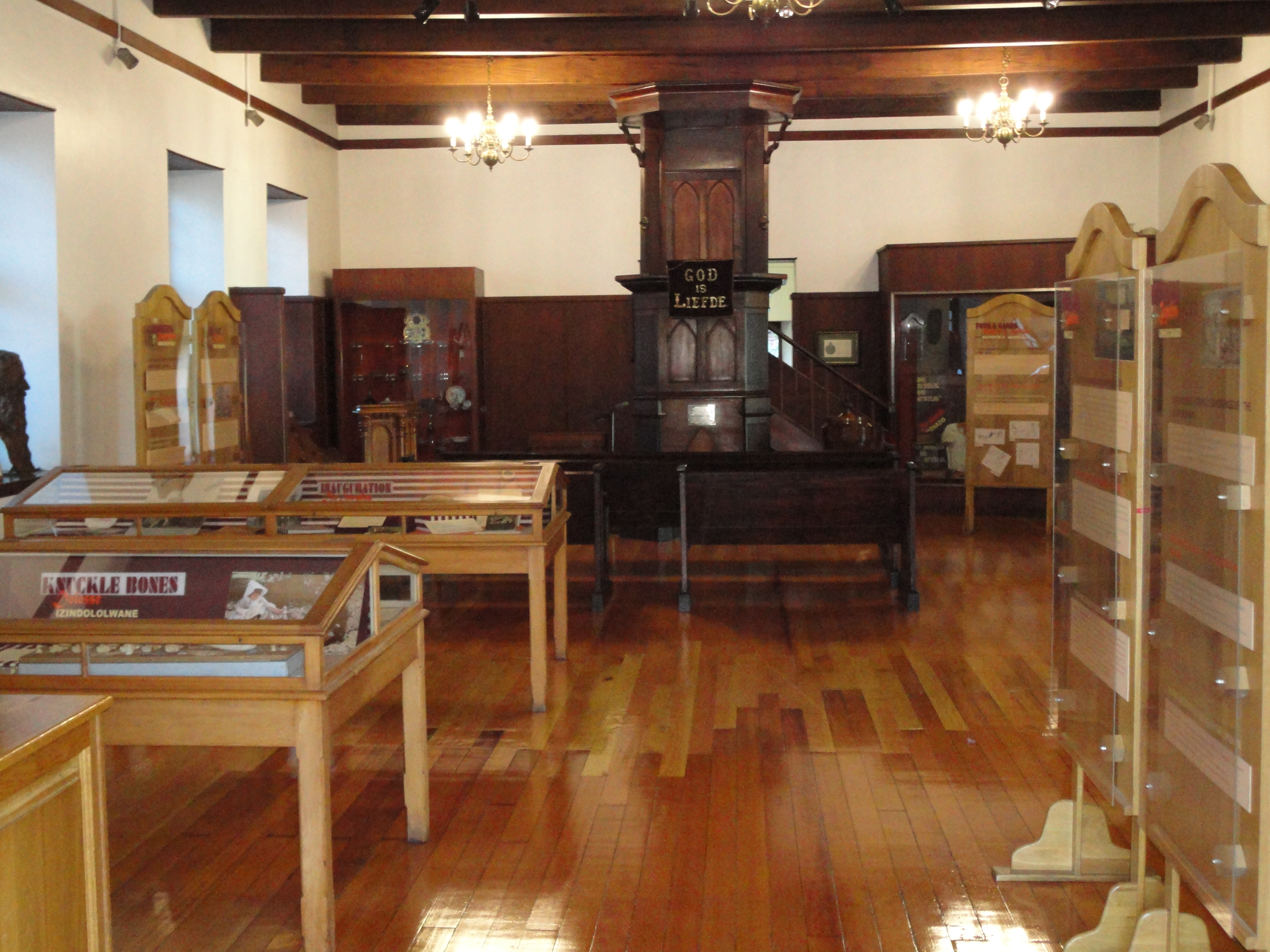 The Church of the Vow in Pietermaritzburg is currently the Voortrekker Museum.